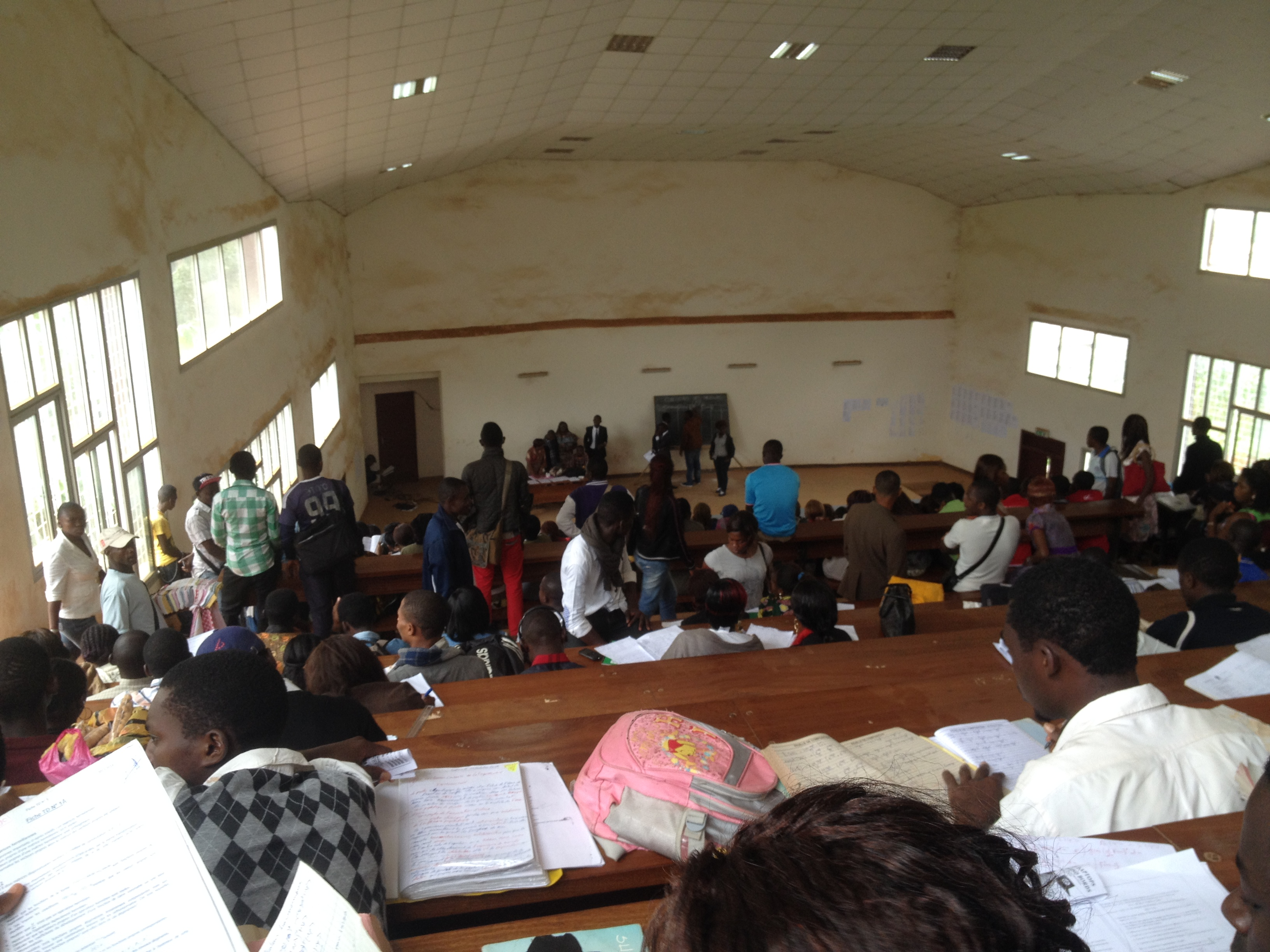 Inside Amphi 701 in the University of Yaoundé I on the main campus in Ngoa-Ekelle.